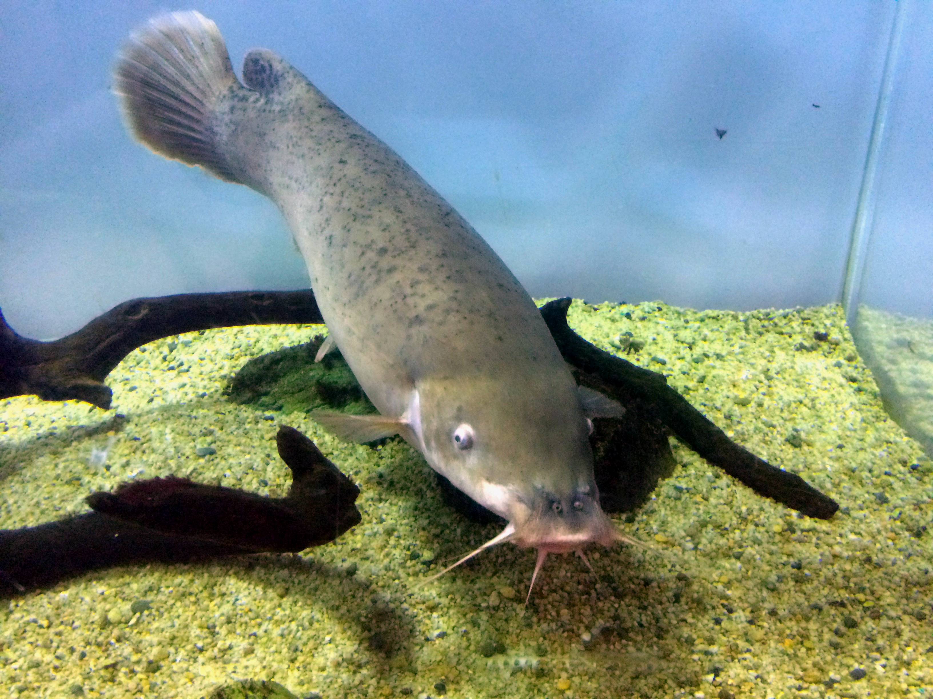 Smallmouth electric catfish (Malapterurus microstoma) in Hakone-en Aquarium, Japan.